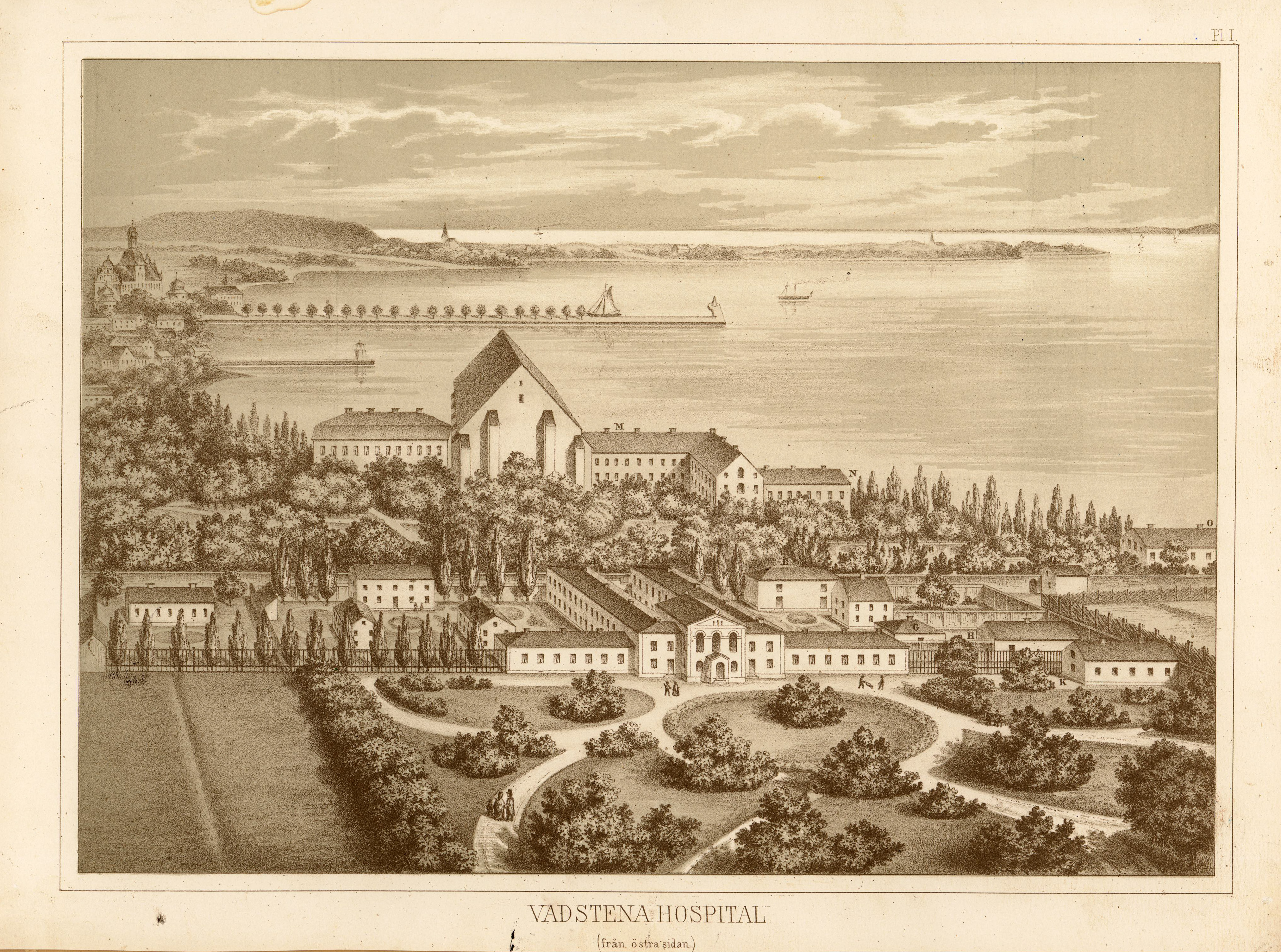 Vadstena hospital. Lithography, black and white, 26 x 35 cm